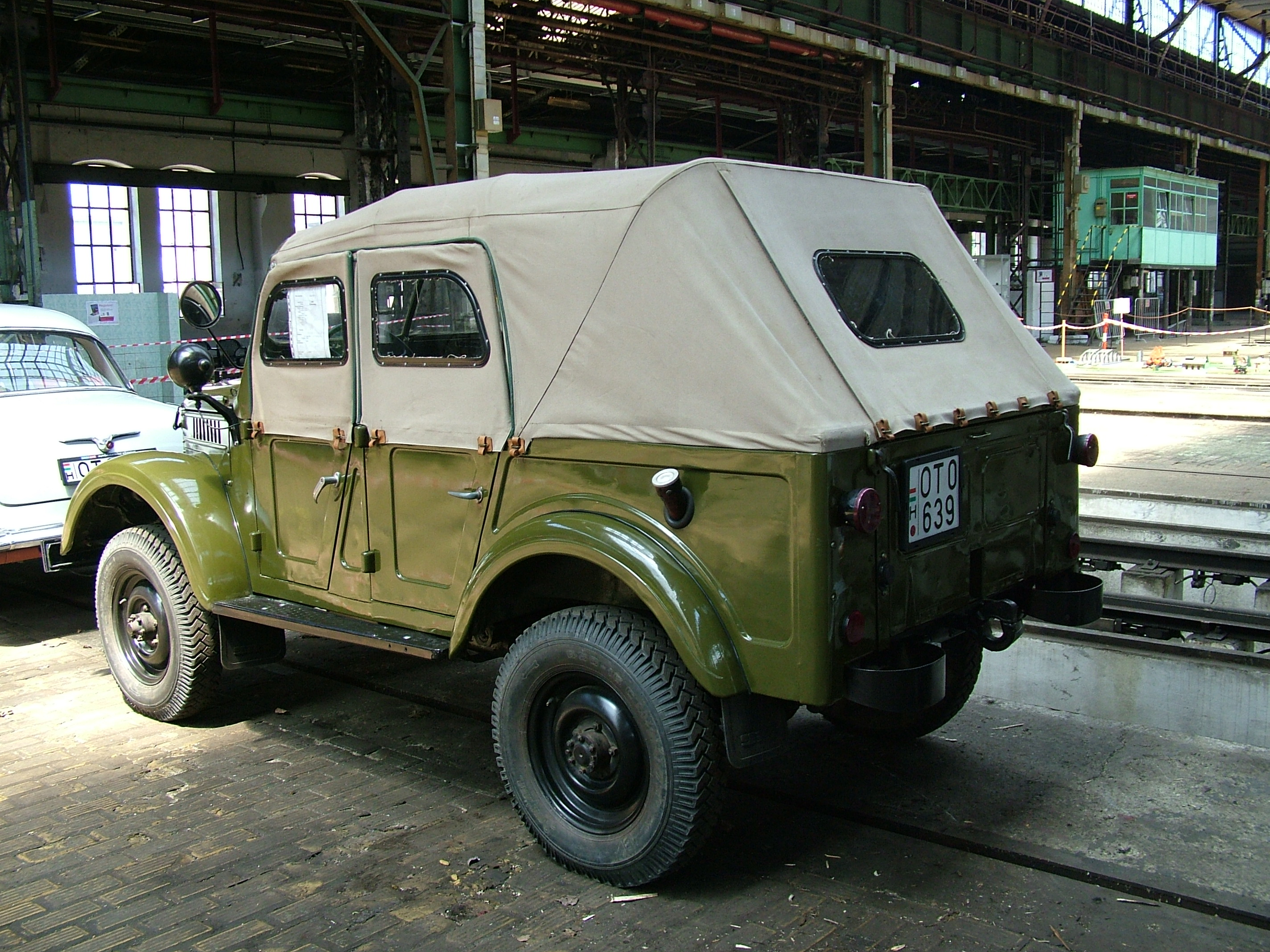 UAZ-69A during II. Vasút - Vasútmodell és Technikai Modell Fesztivál.